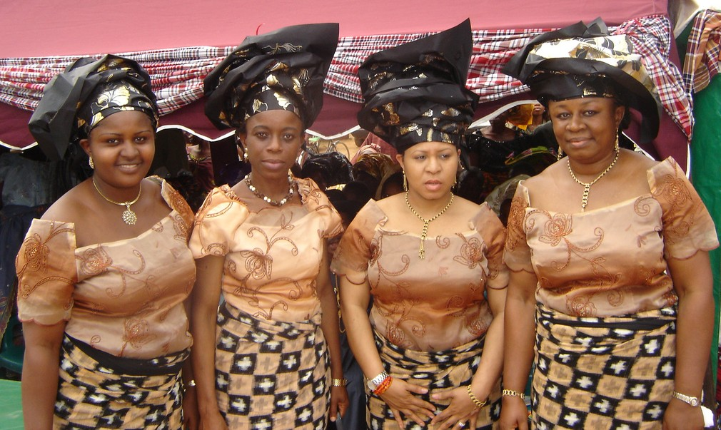 Women at a Nigerian traditional coronation ceremony.